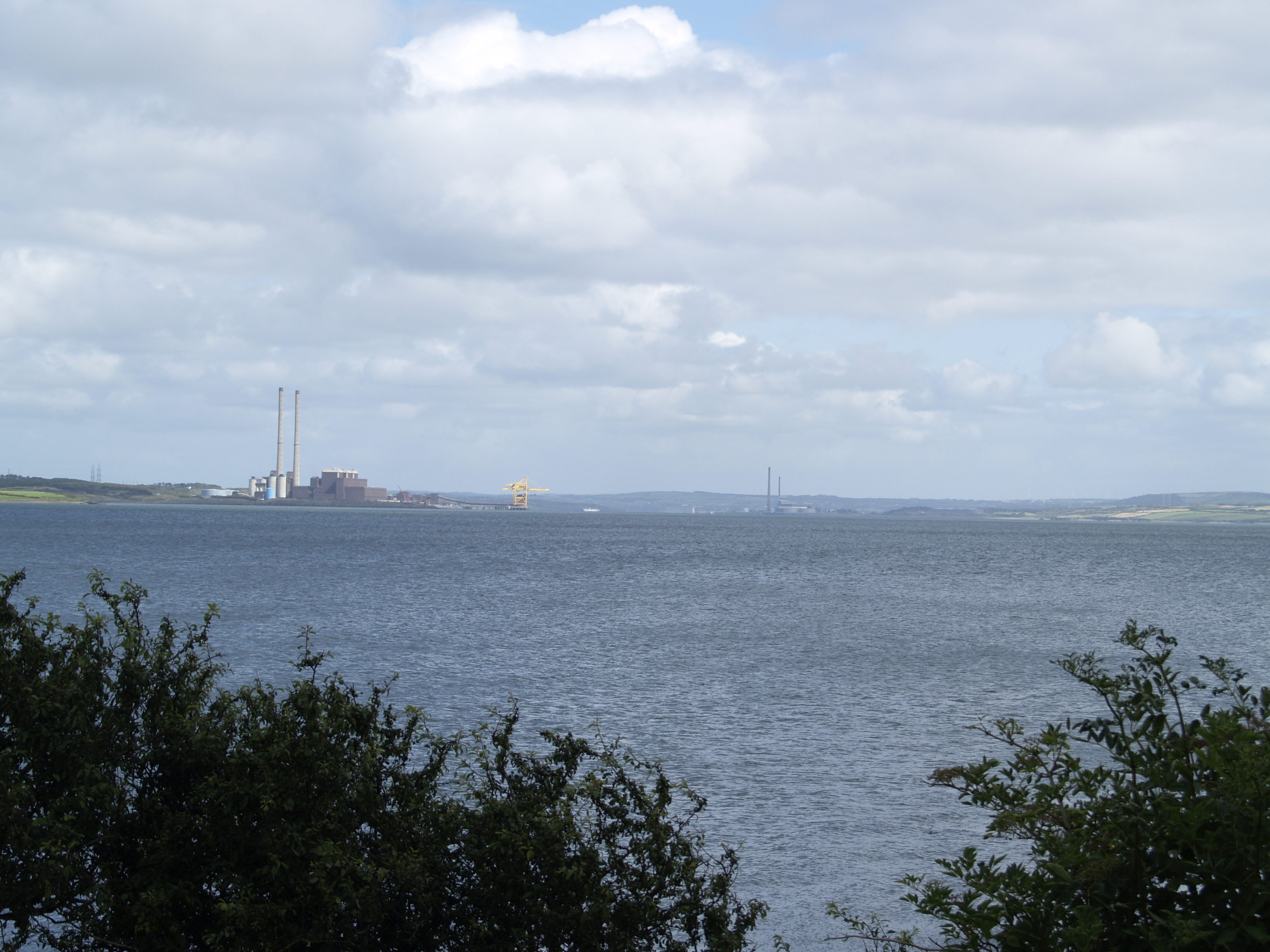 Moneypoint powerstation